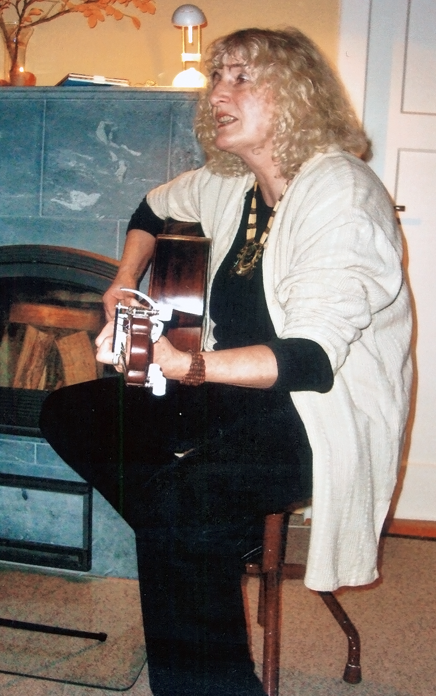 Hannelore Gilsenbach, 2008 performing in the Gilsenbach House, Brodowin